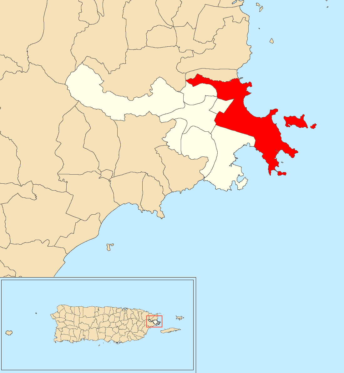 Machos, Ceiba, Puerto Rico locator map